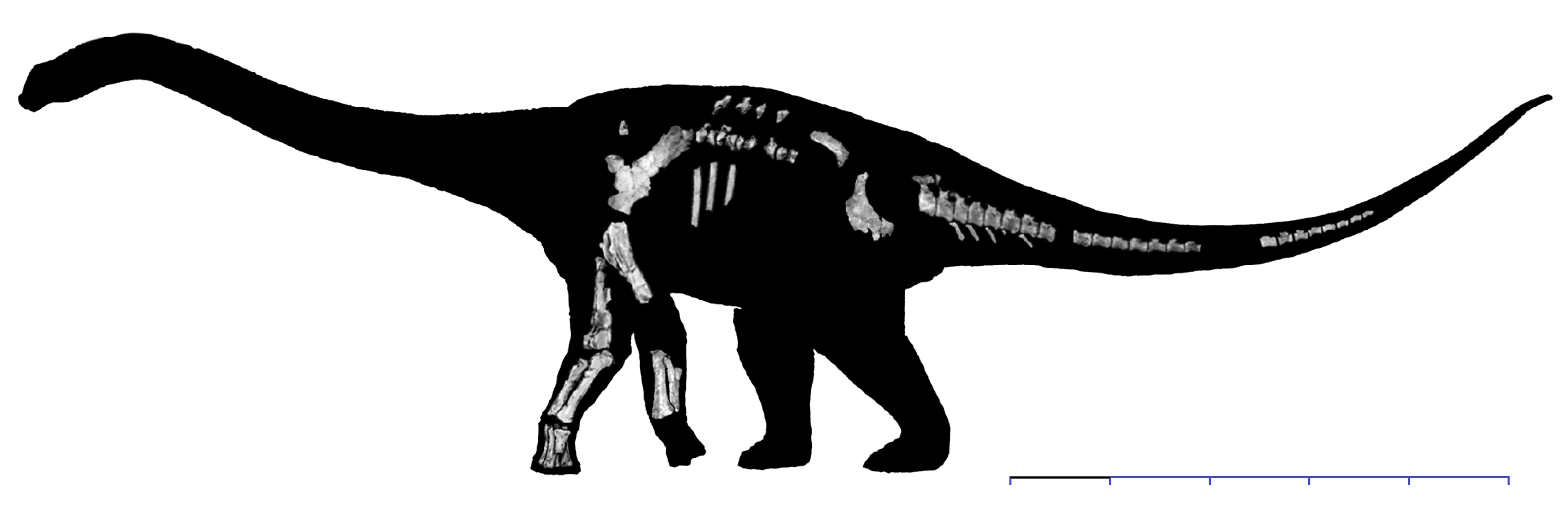 Wintonotitan wattsi gen. et sp. nov. (QMF 7292) (Silhouette with sketched in bone parts of the material currently known at publishing date; scale bar: size unknown — not mentioned in original source)